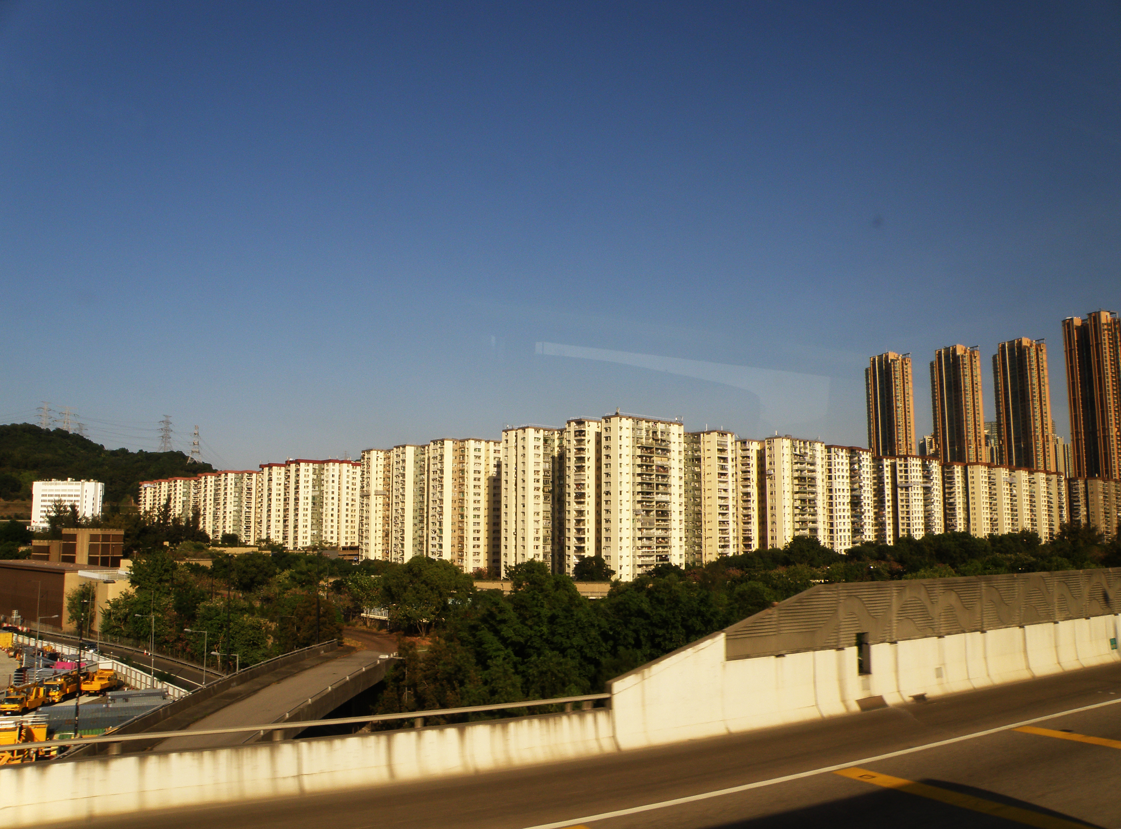 Mei Foo Sun Chuen in Mei Foo, Hong Kong.